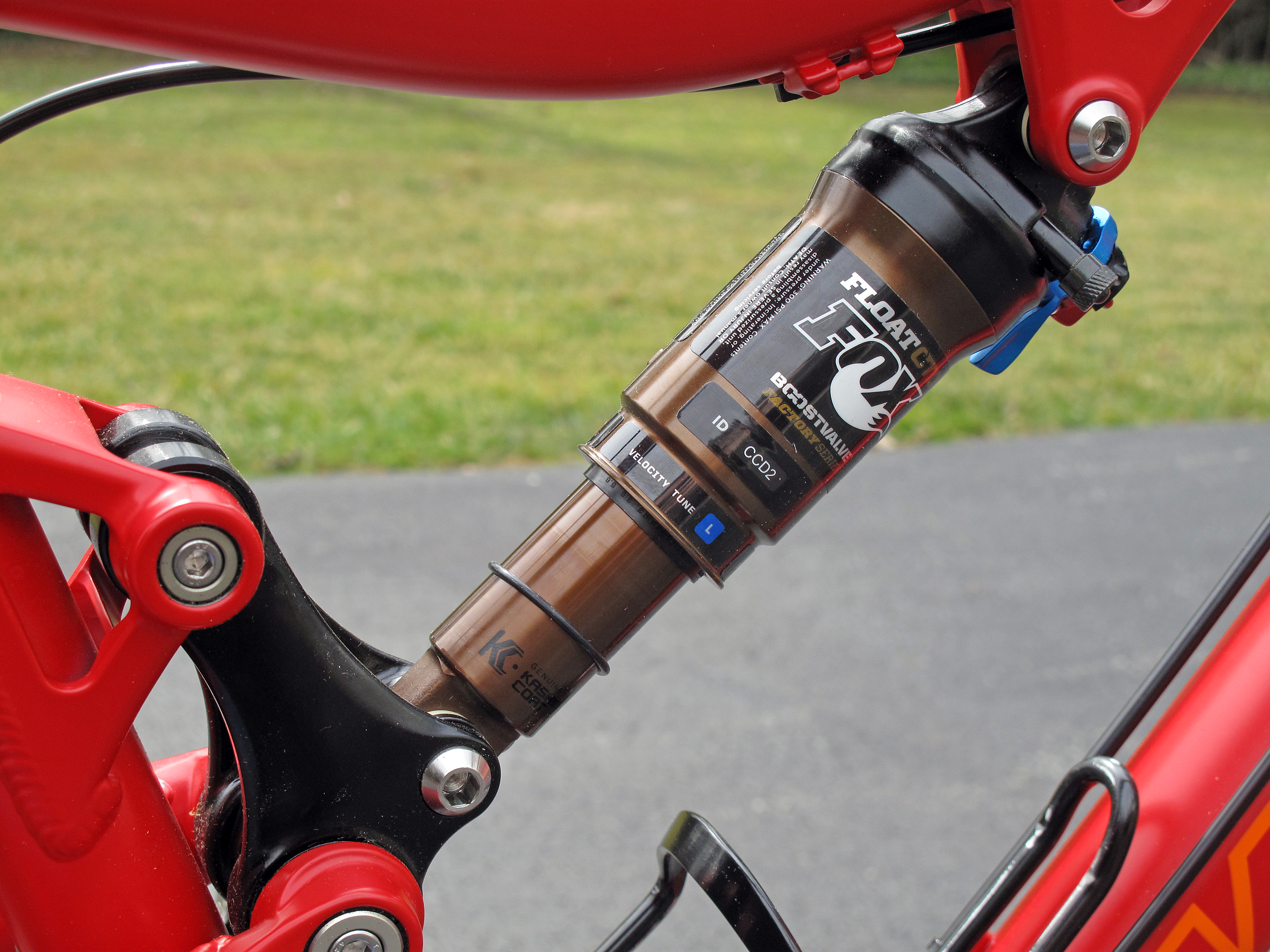 Rear suspension of a 2013 Santa Cruz Tallboy mountain bike